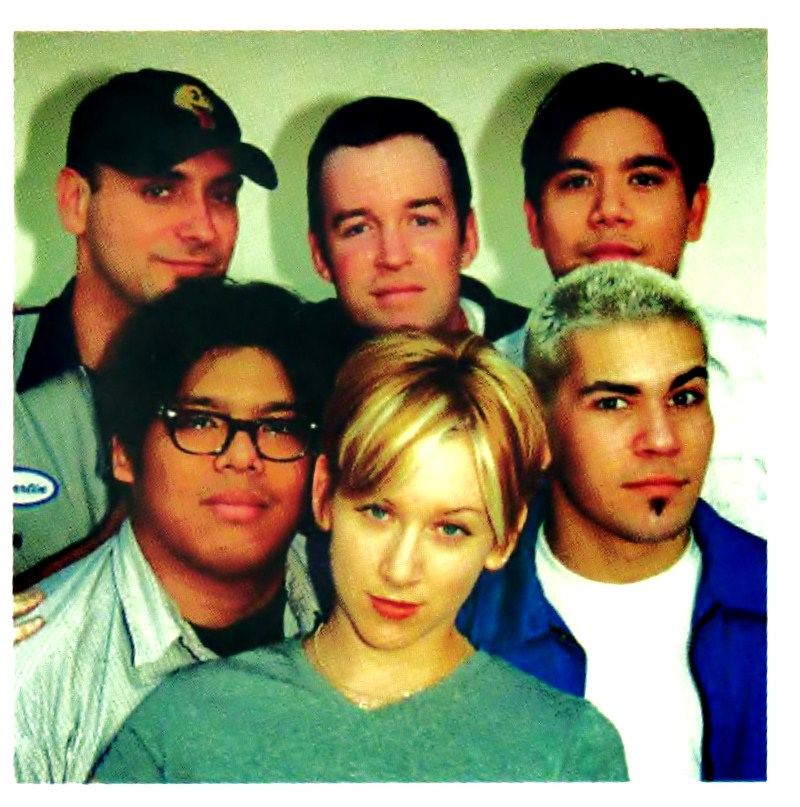 Group photo of the band Mealticket